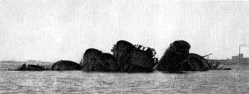 The wreck of the German anti-aircraft cruiser Niobe (ex-HNLMS De Gelderland) after the fatal Soviet air attack of 16 July, 1944 on Kotka in Finland.